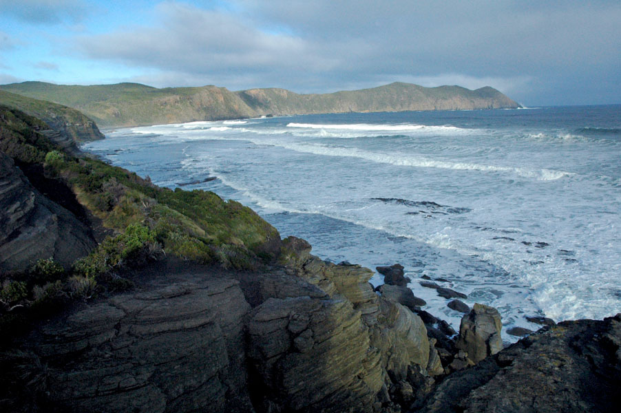 South East Cape, Tasmania.